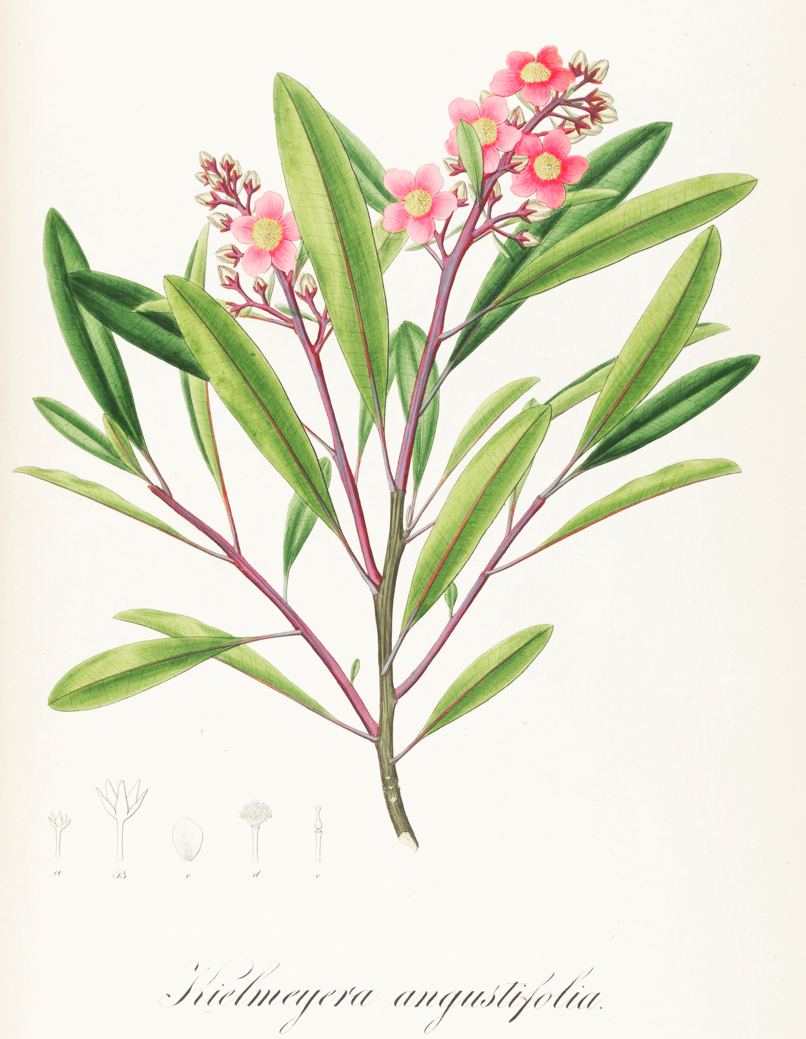 Plate from book